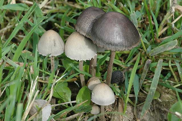 Panaeolus papilionaceus from Commanster, Belgian High Ardennes. The determination of the species shown in this picture has been verified.